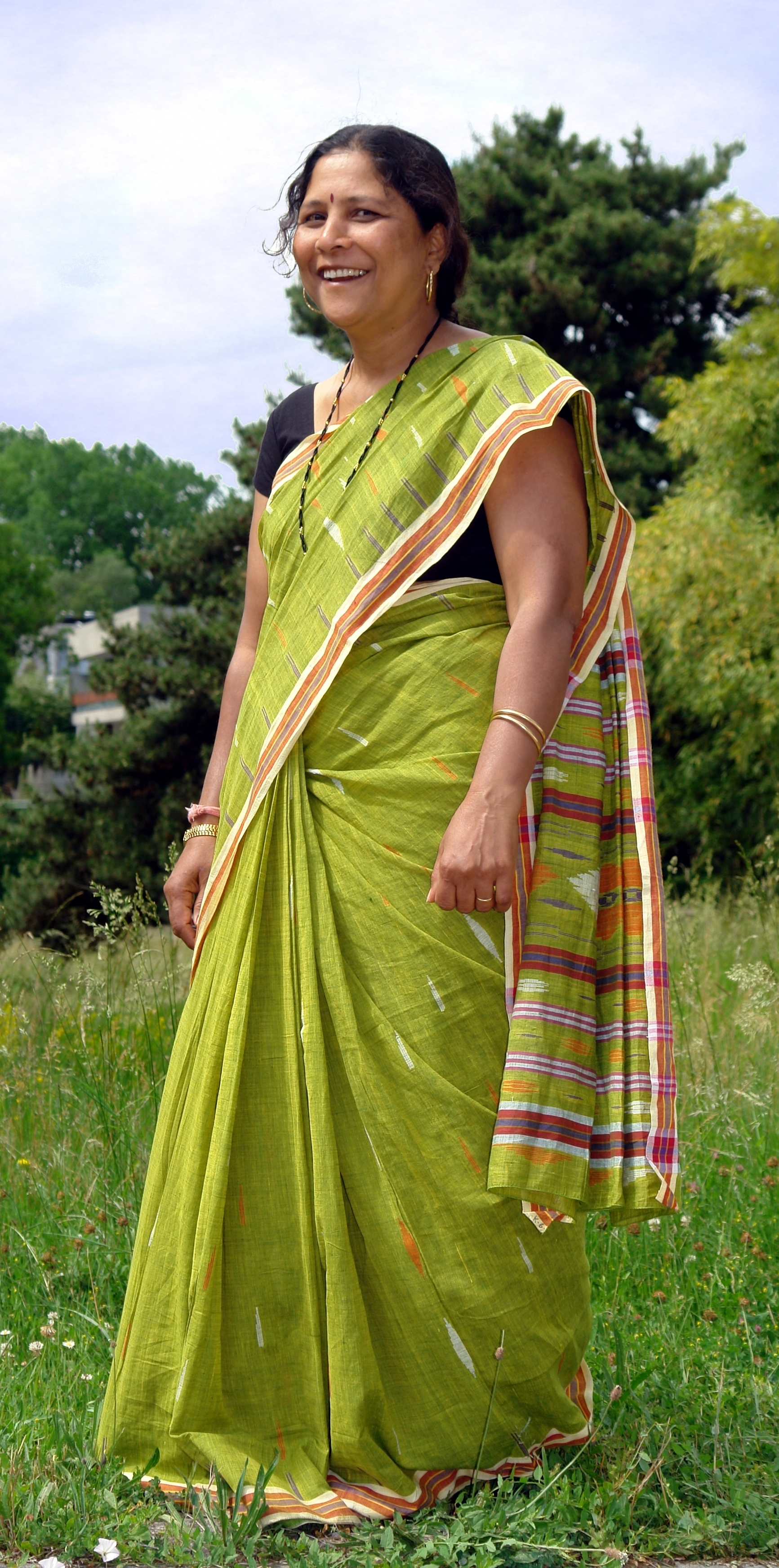 Sari. Picture taken in Europe. The model posed. Geolocalisation withheld for privacy reasons.